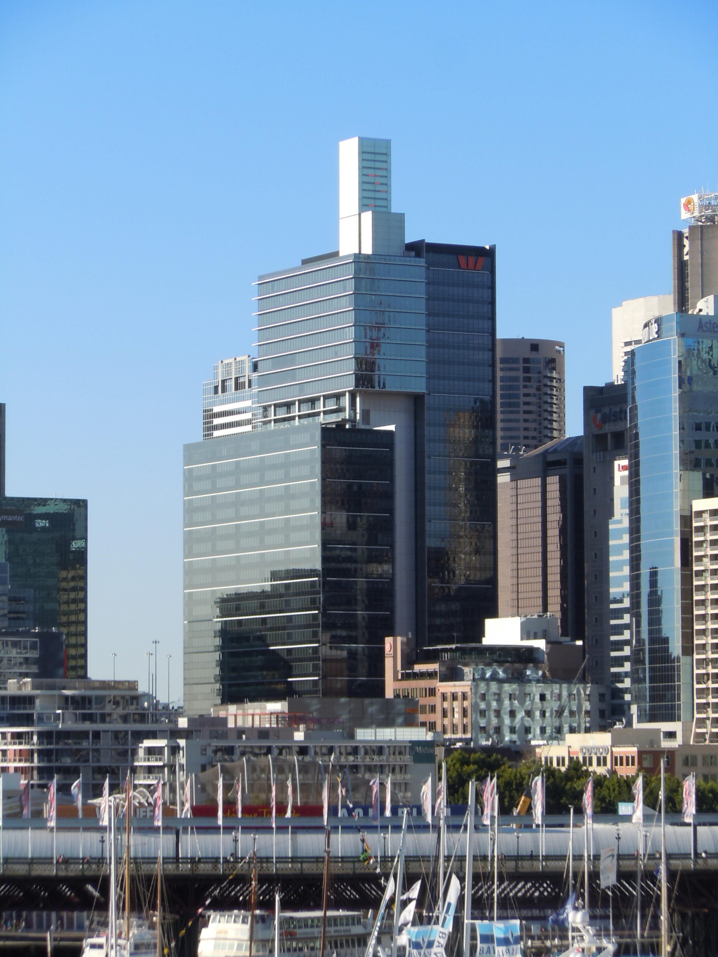 Westpac Place from the Western Distributor.